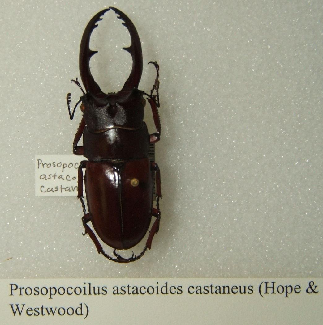 Prosopocoilus astacoides castaneus adult taken by Shawn Hanrahan at the Texas A&M University Insect Collection in College Station, Texas.